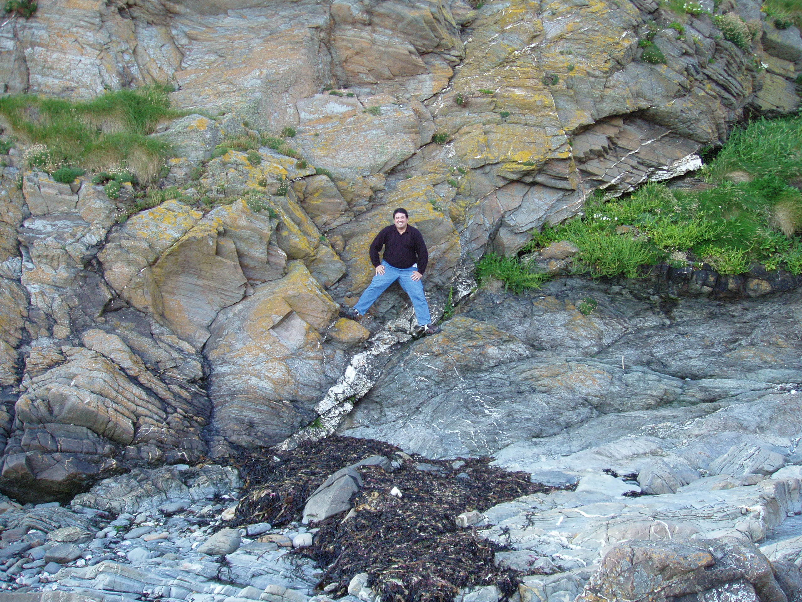 The Iapetus Suture, also known as the Niarbyl Fault on the Isle of Man, is the separation between the former Laurentia and Avalonia paleocontinents, predecessors of present-day North America and Europe. As such, it is humored locally that at this spot one can have a foot on both continents at the same time.